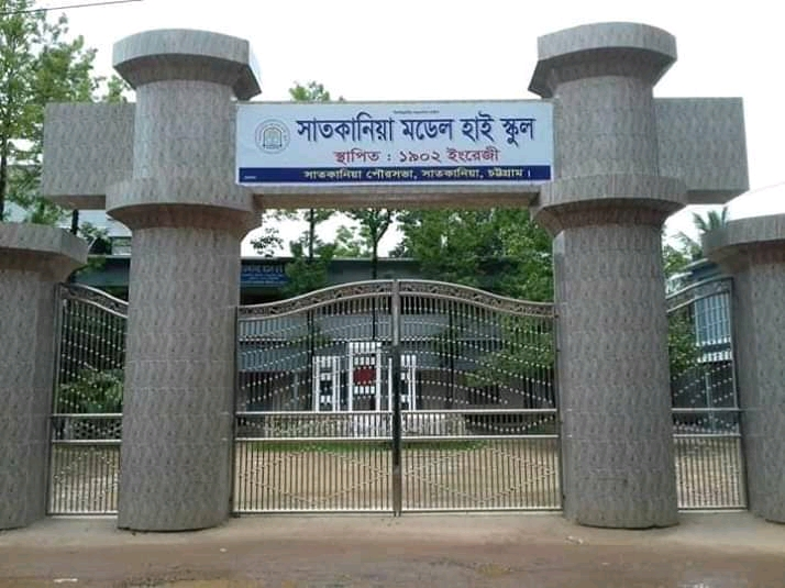 স্কুলের প্রধান গেট